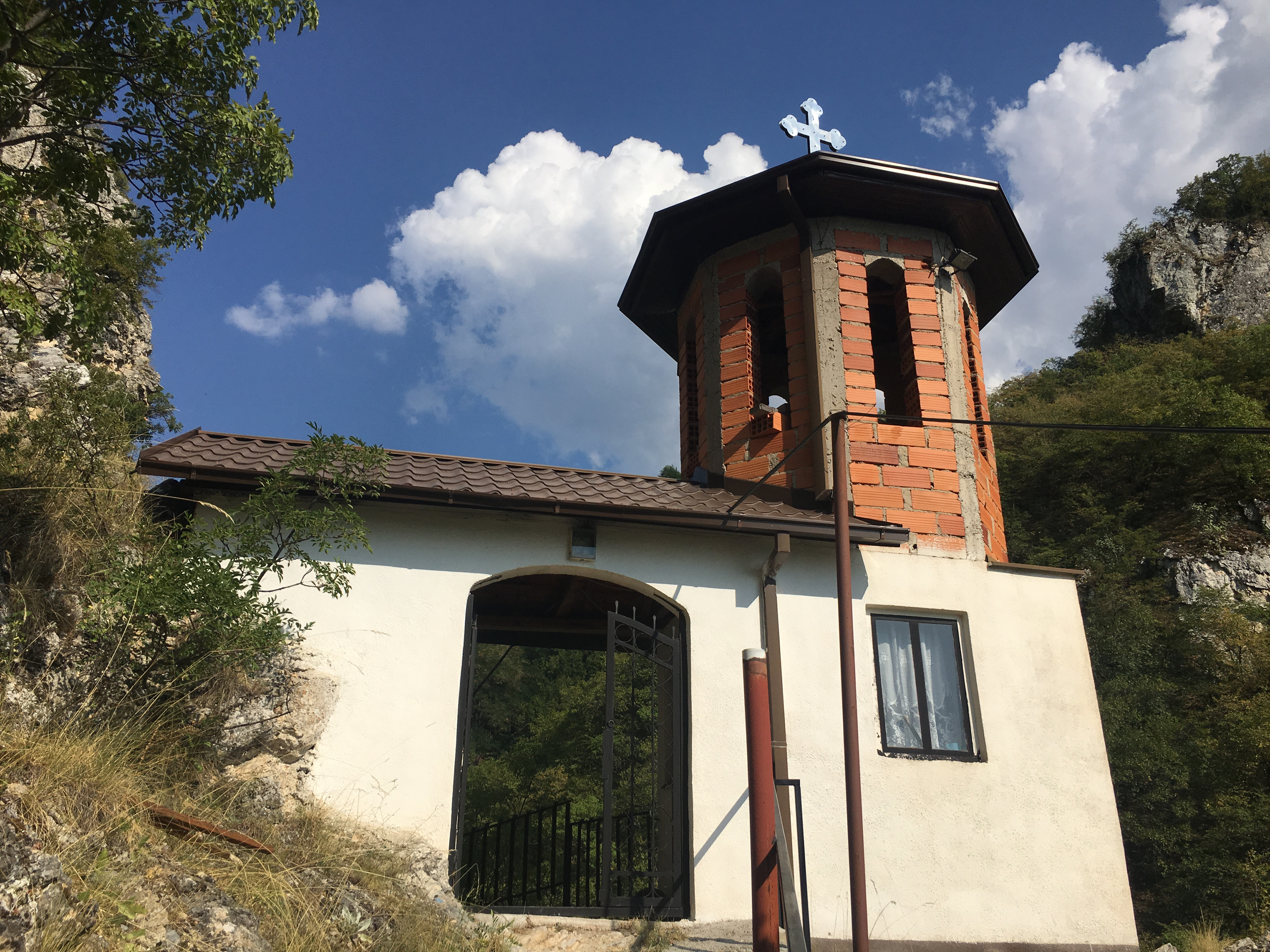 Church of the Theotokos near the village of Velgošti